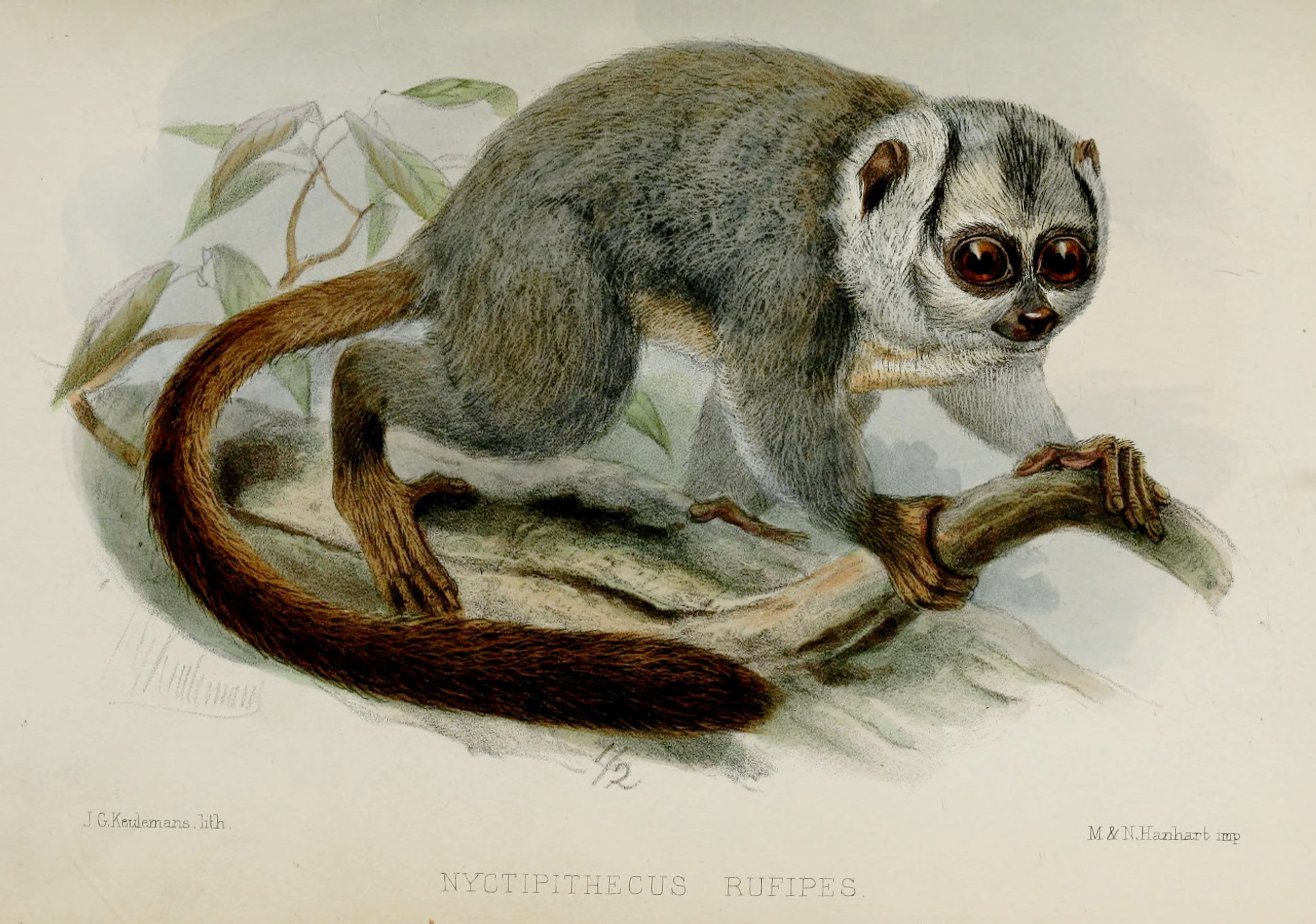 Nyctipithecus rufipes = Aotus trivirgatus